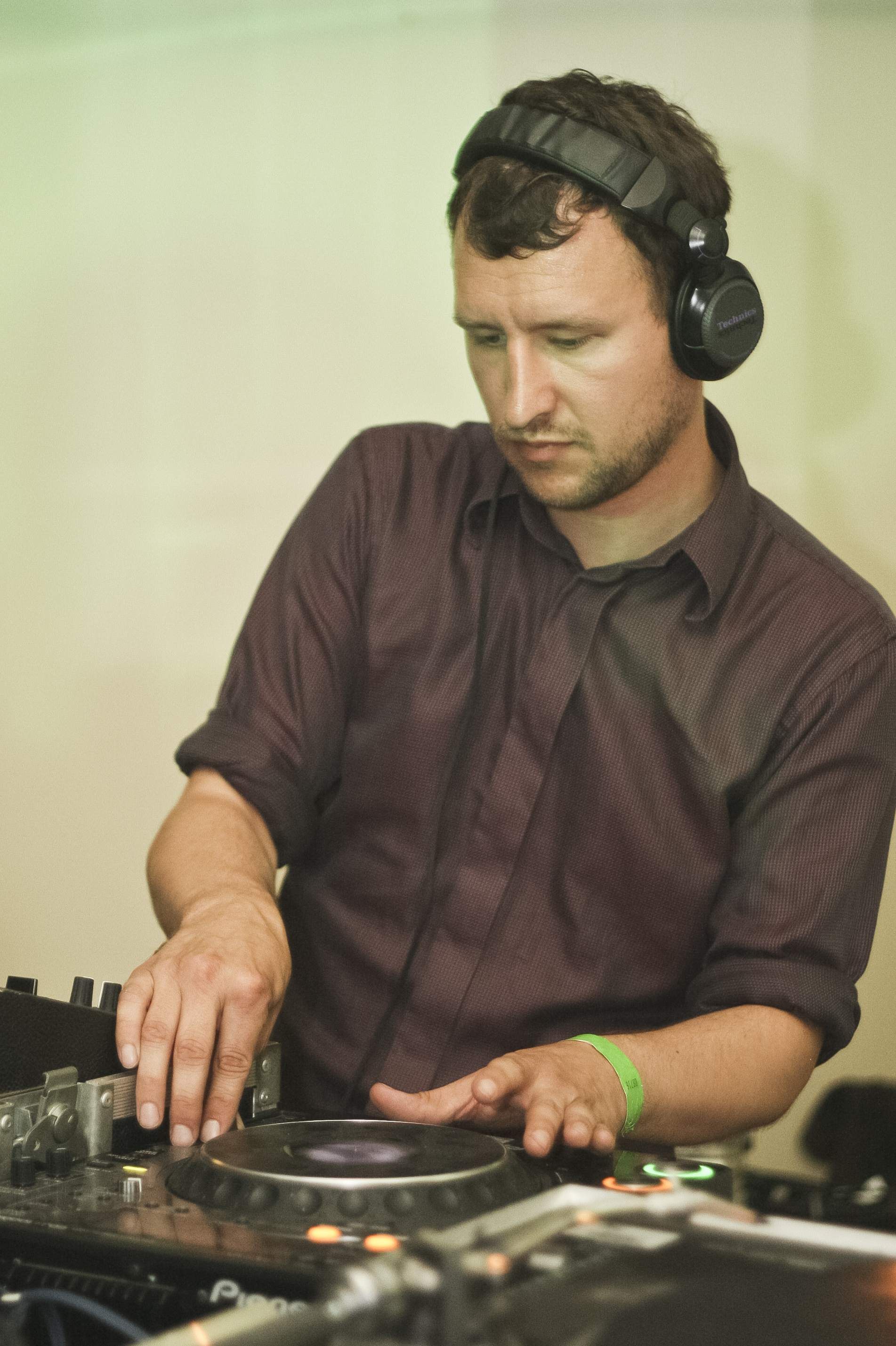 DJ Phono at Juicy Beats Festival, Dortmund/Germany